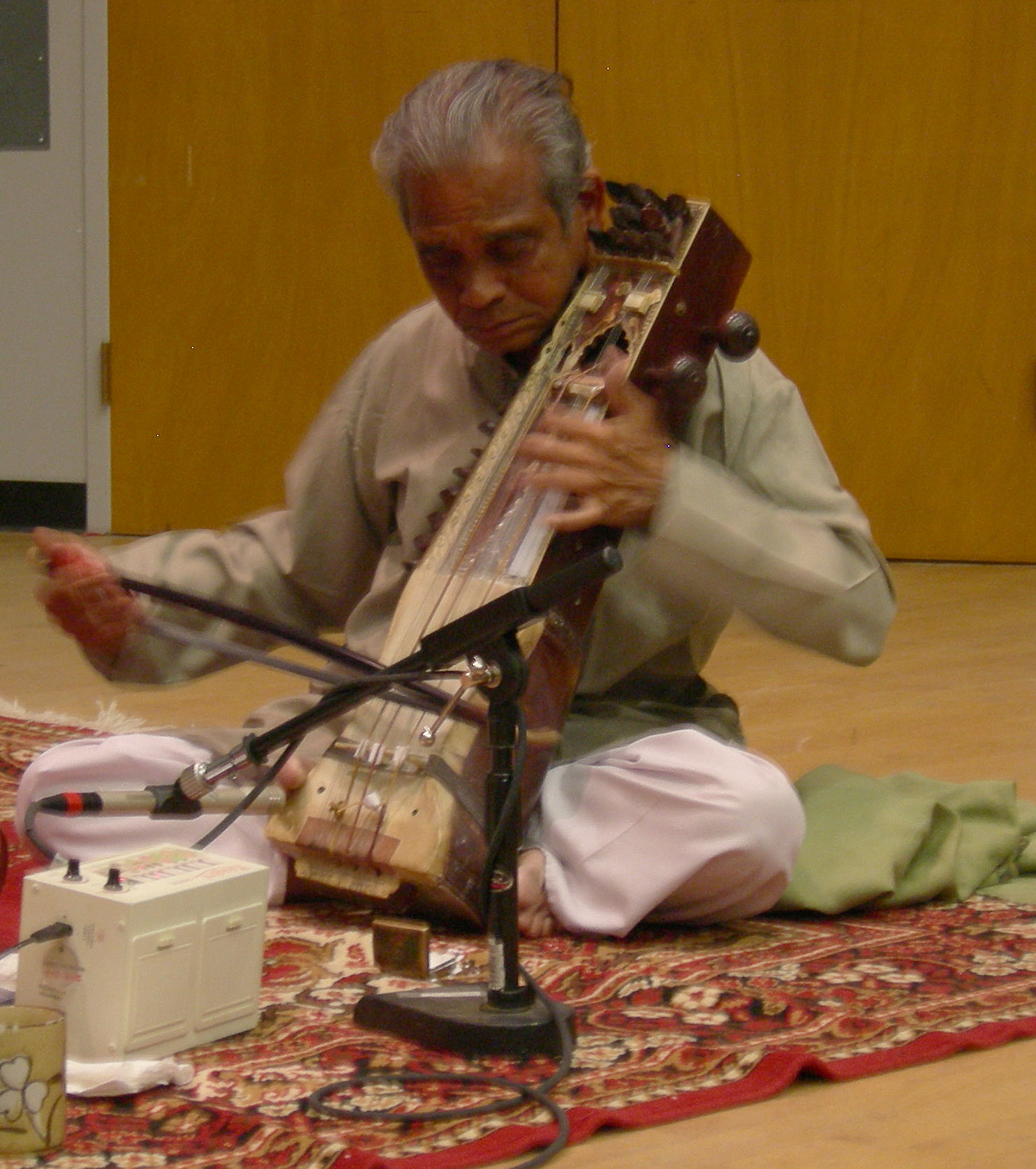 Anant Kunte playing the sarangi, accompanying Shruti Sadolikar Katkar in a concert in the Ragamala series, Brechemin Auditorium, Music building, University of Washington, Seattle, Washington. Image has been somewhat retouched, but nothing major.